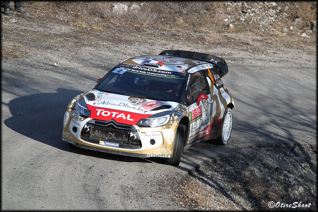 Sébastien Loeb at Monte-Carlo rally 2015 - SS10